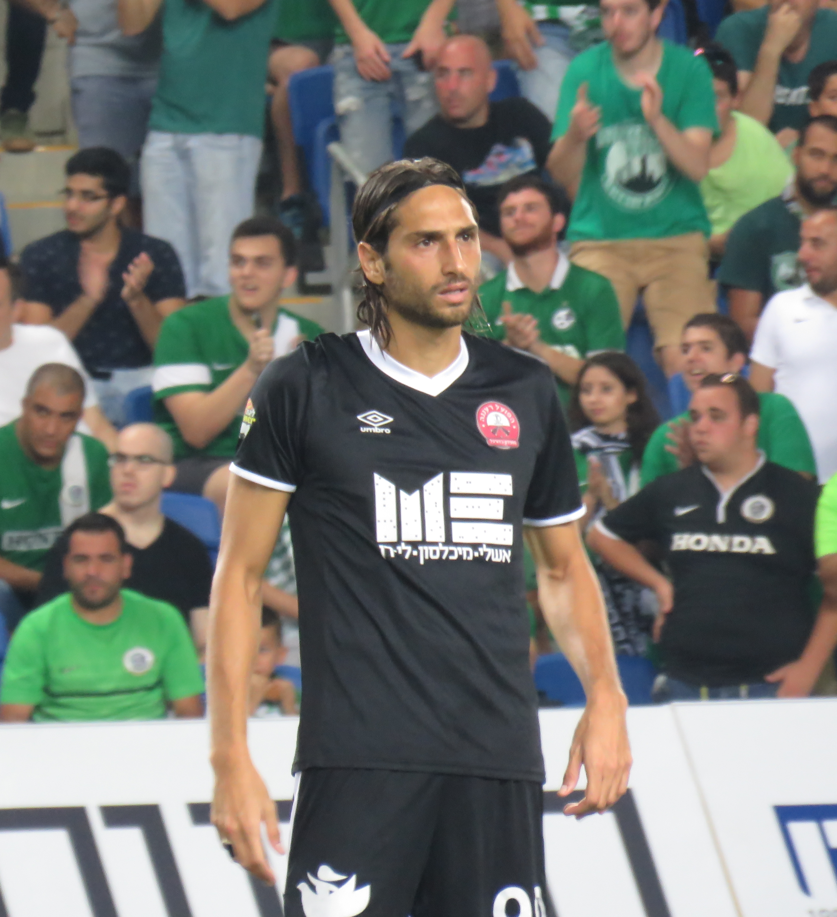 Hapoel Ra'anana vs. Maccabi Haifa F.C., 3 October, 2015